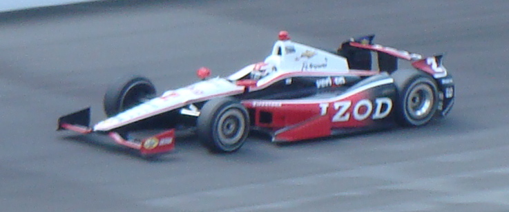 Ryan Briscoe makes his pole-winning qualification run for the 2012 Indianapolis 500